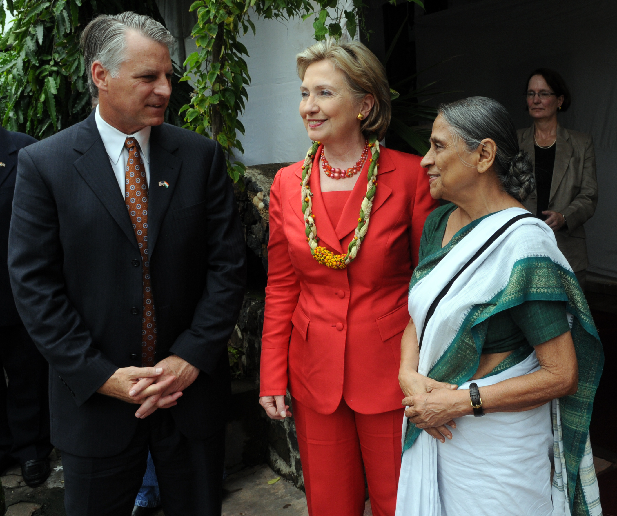 U.S. Secretary of State Hillary Rodham Clinton and U.S. Ambassador-Designate to India Timothy J. Roemer welcomed by SEWA Founder Ela Bhatt at the Hansiba outlet at Napean in Mumbai, India July 18, 2009. [State Department photo]